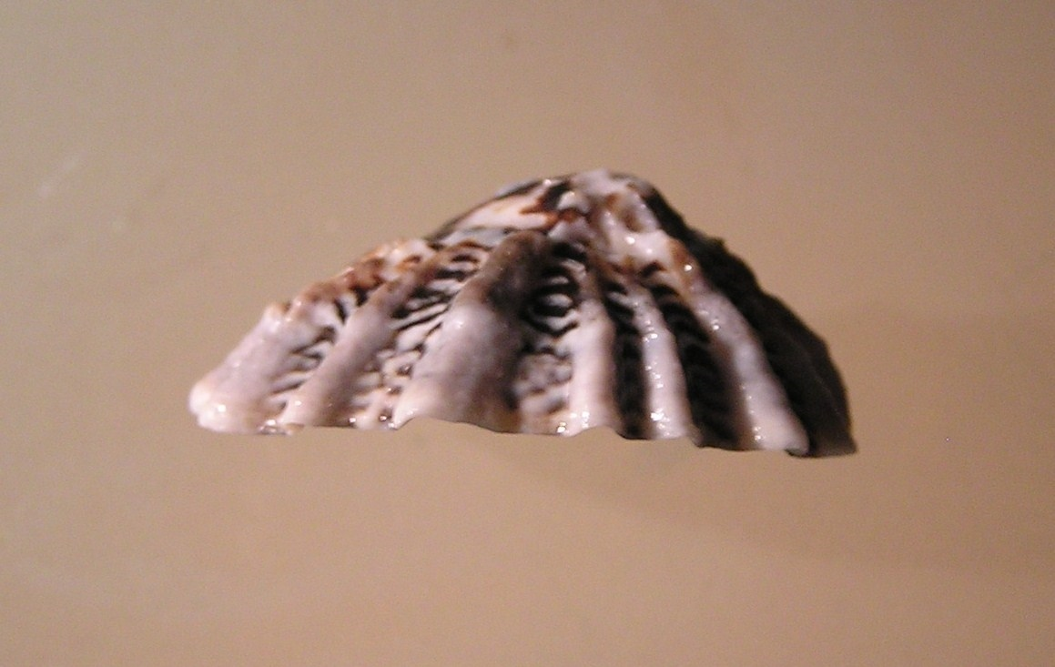 Patelloida alticostata (Angas, 1865), a limpet from the family Lottiidae; South Australia